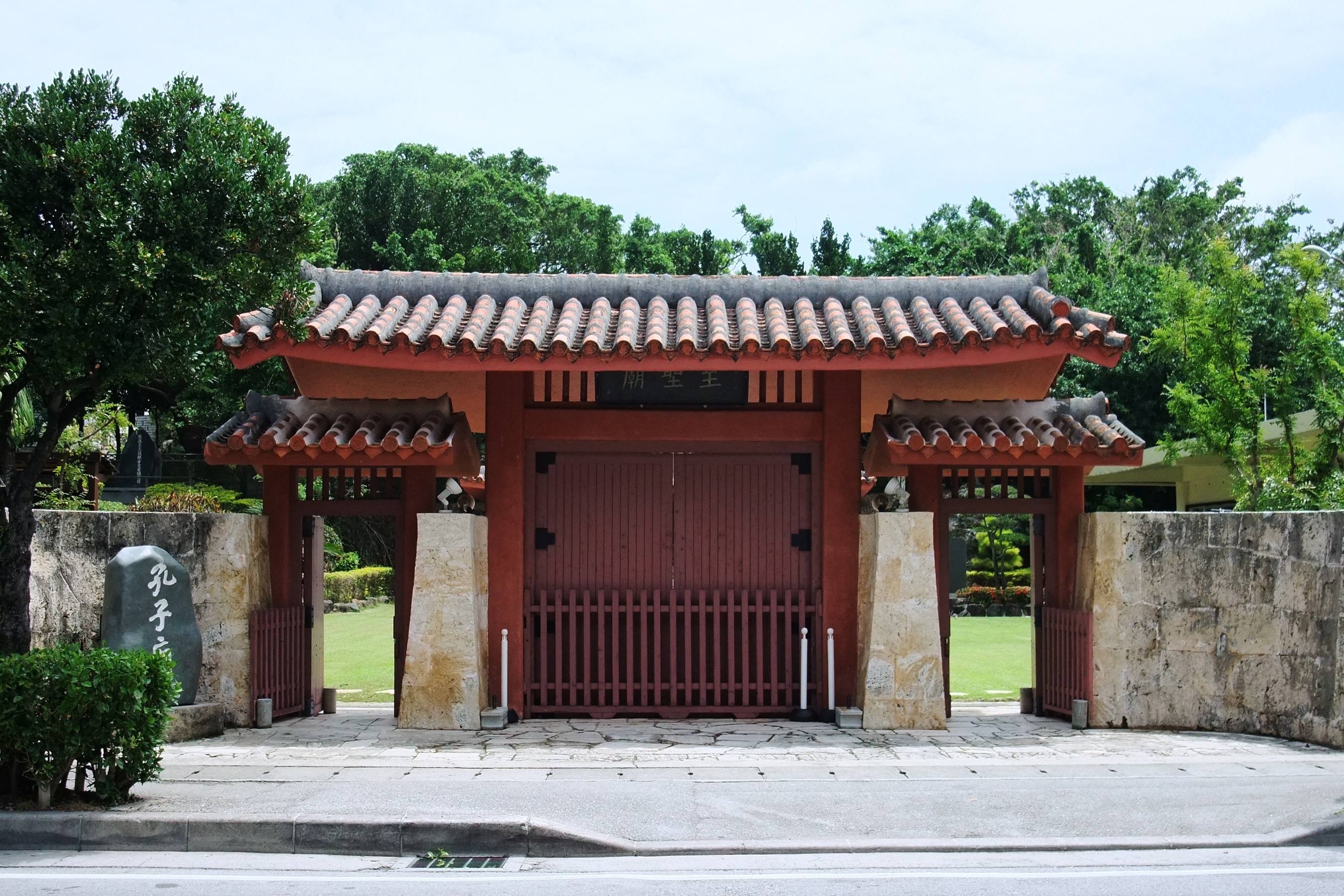 Shiseibyō on Tensonbyo-chi in Naha, Okinawa prefecture, Japan.